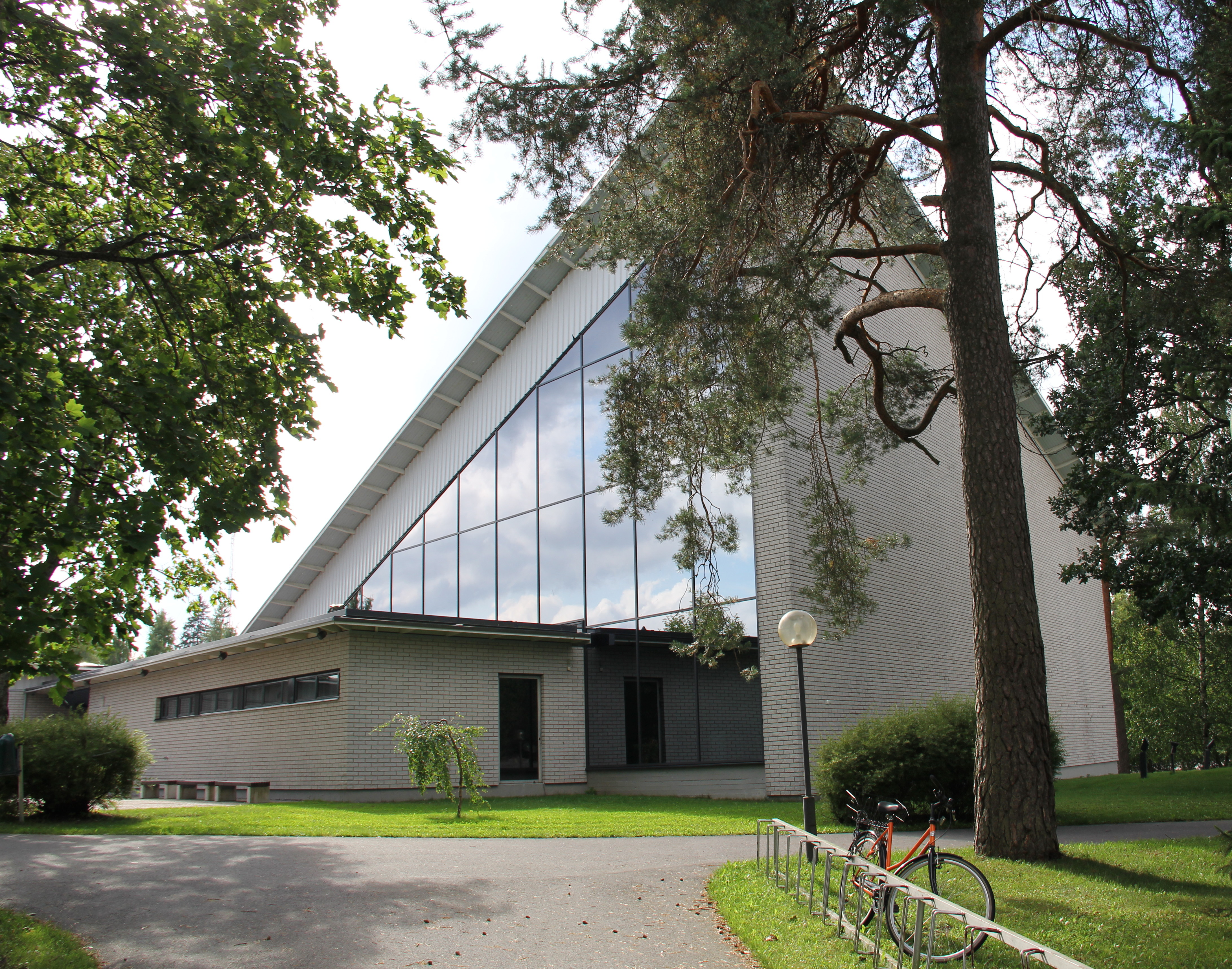 Loimaa town church in Loimaa, Finland. Completed in 1973. Architect Reino Lukander. View from northeast.